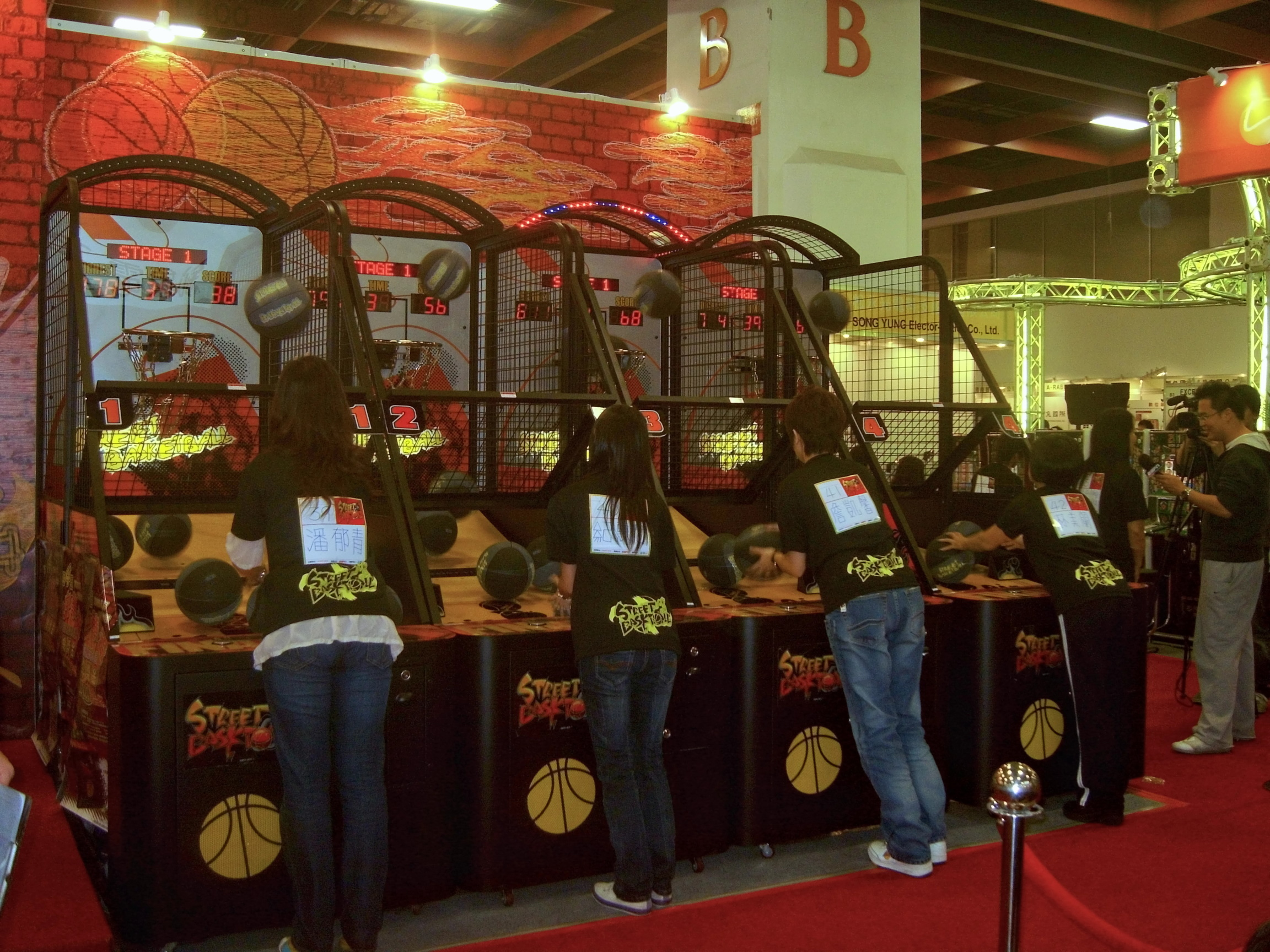 2009 GTI Asia Expo Taipei: Saint-Fun Street Basketball.